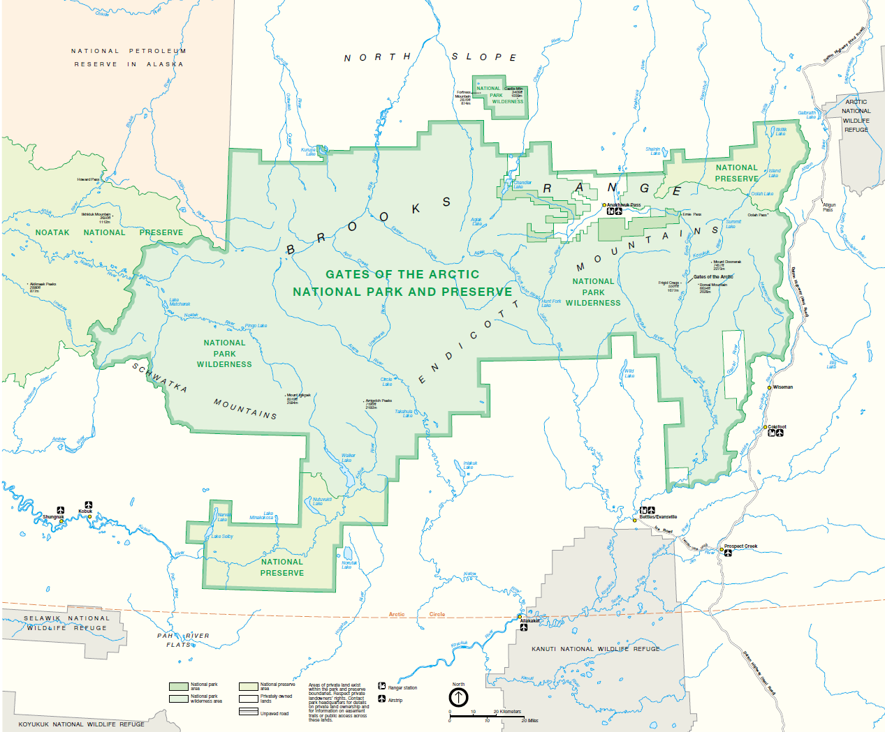 Map of the Gates of the Arctic National Park, Alaska